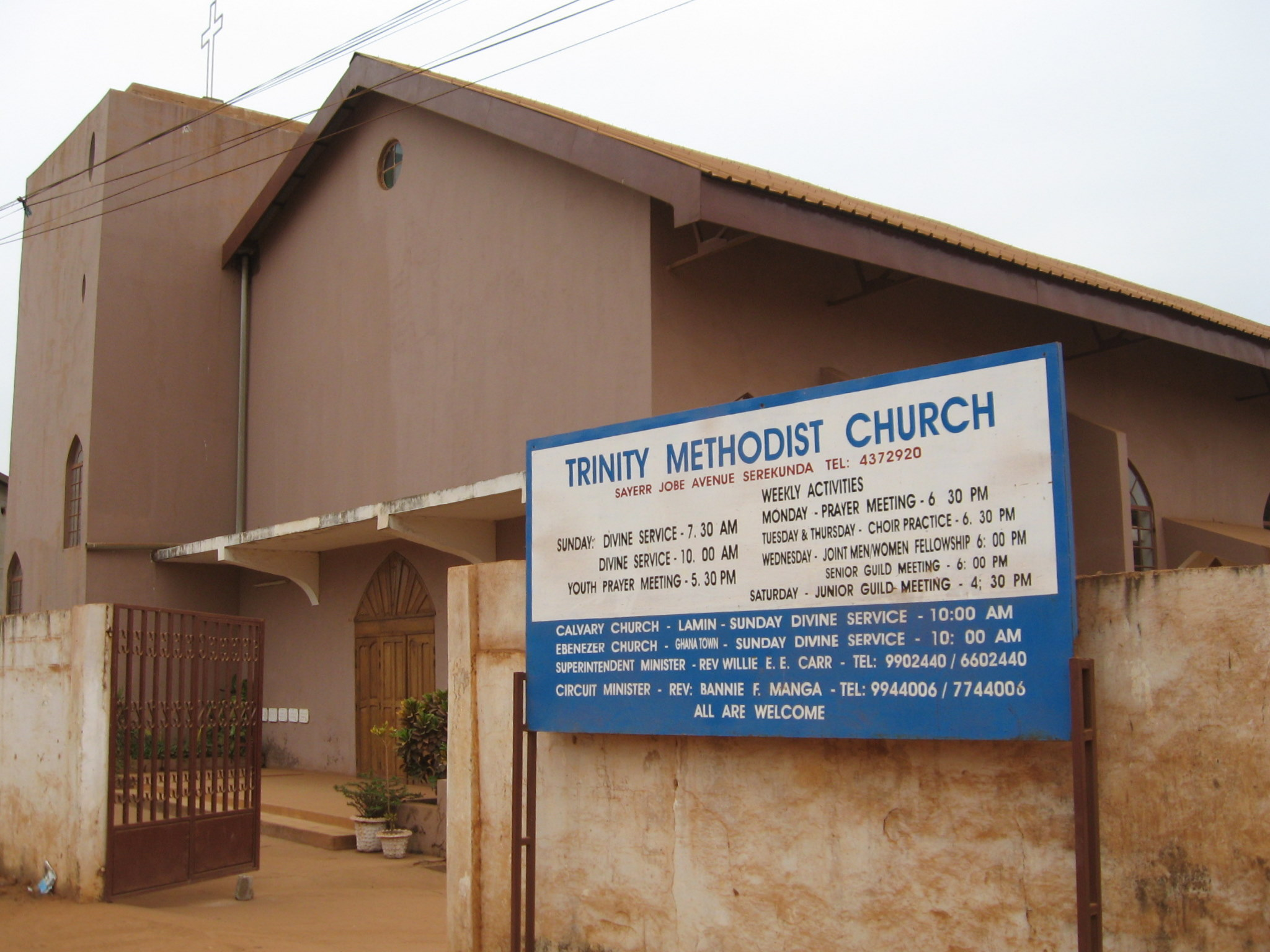 trinity Methodist Church Serrekunda, Gambia